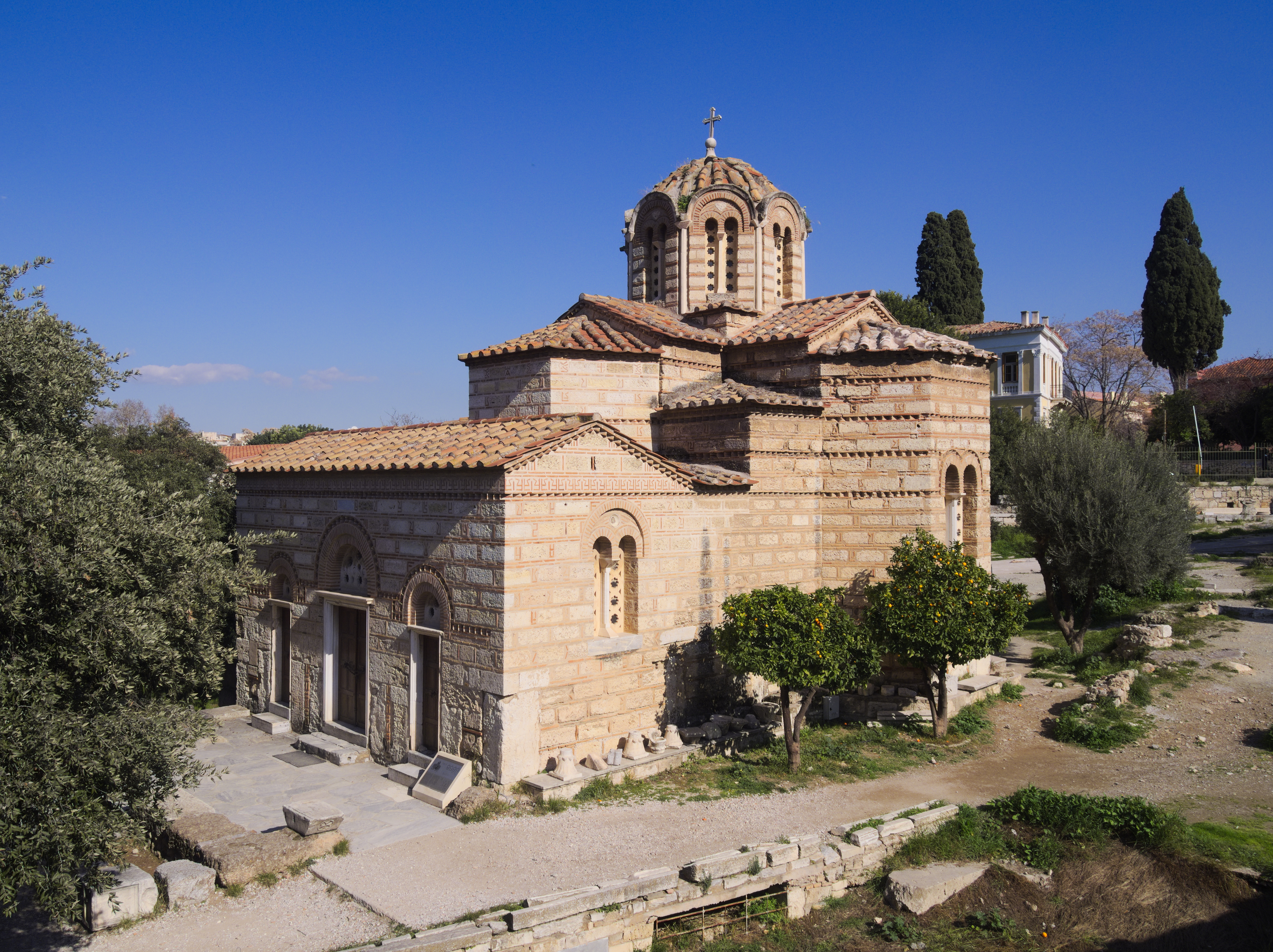 The byzantine church of Ayioi Apostoloi (Holy Apostles) Solaki, within the ancient Agora of Athens, as seen from SW.